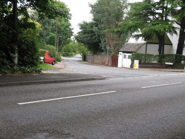 Forge Lane Junction of Forge Lane and A454 Aldridge Road / Walsall Road.